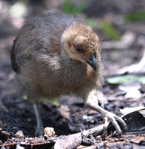 Brush turkey chick